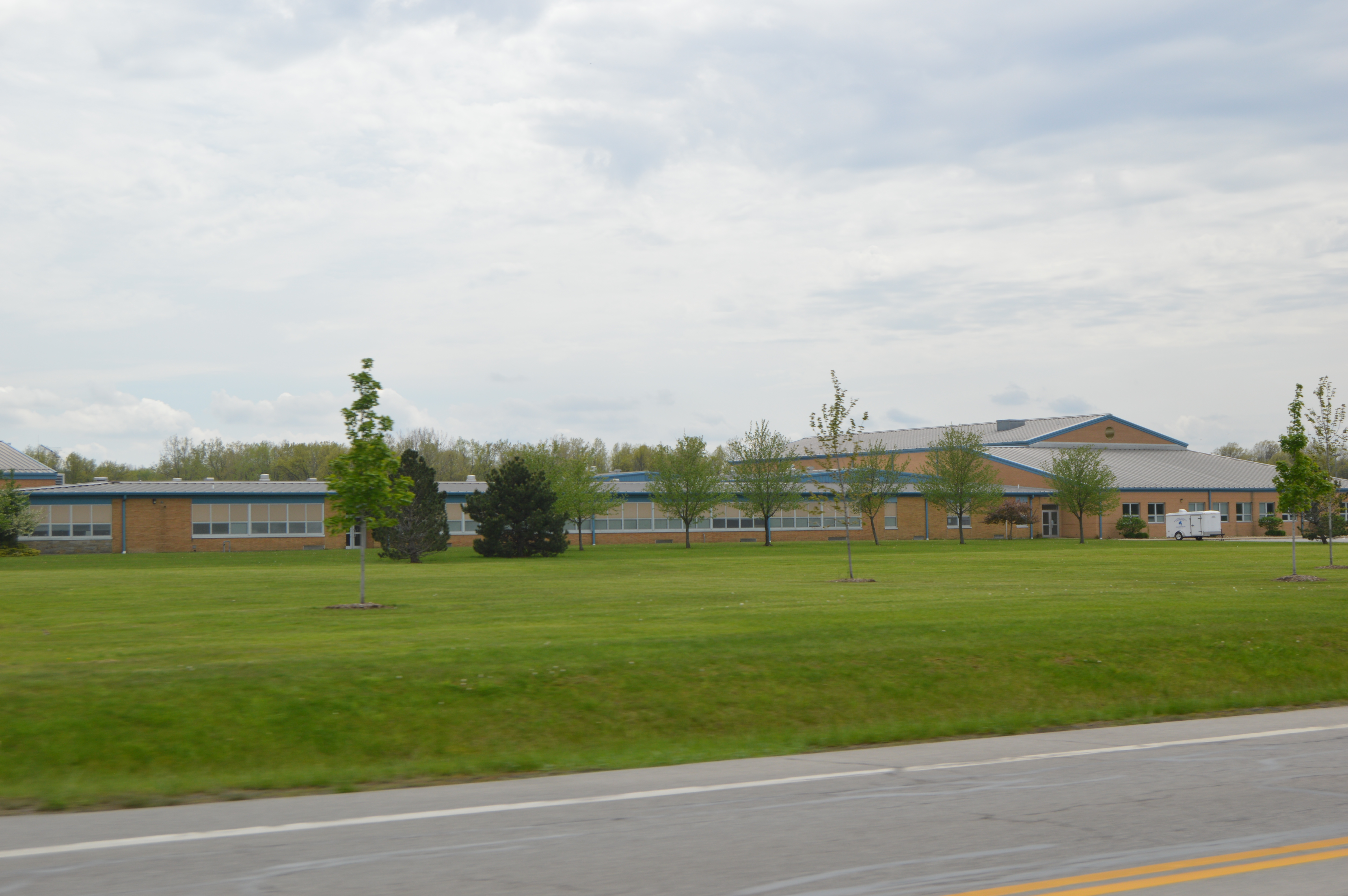 Roadside view of Western Reserve High School, located along U.S. Route 20 just east of Collins in Townsend Township, Huron County, Ohio, United States. It was built in 1959.